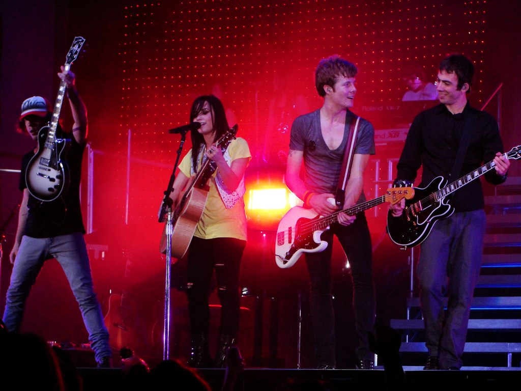 Demi Lovato and her band performing in a concert.